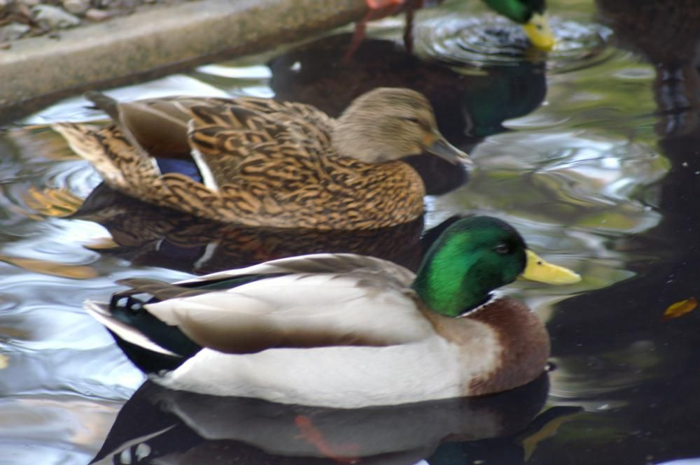 Photo by David Stang.